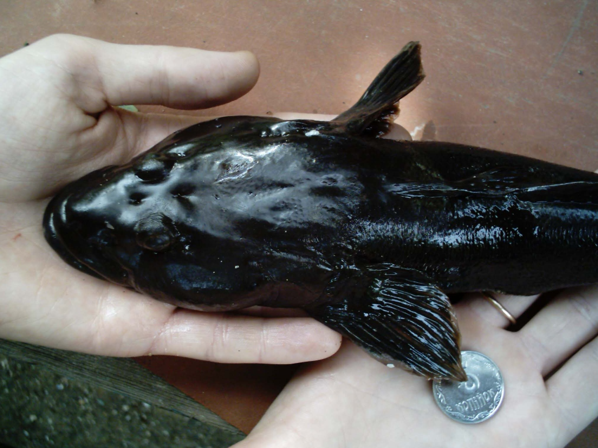 The knout goby from the Gulf of Odessa, Ukraine